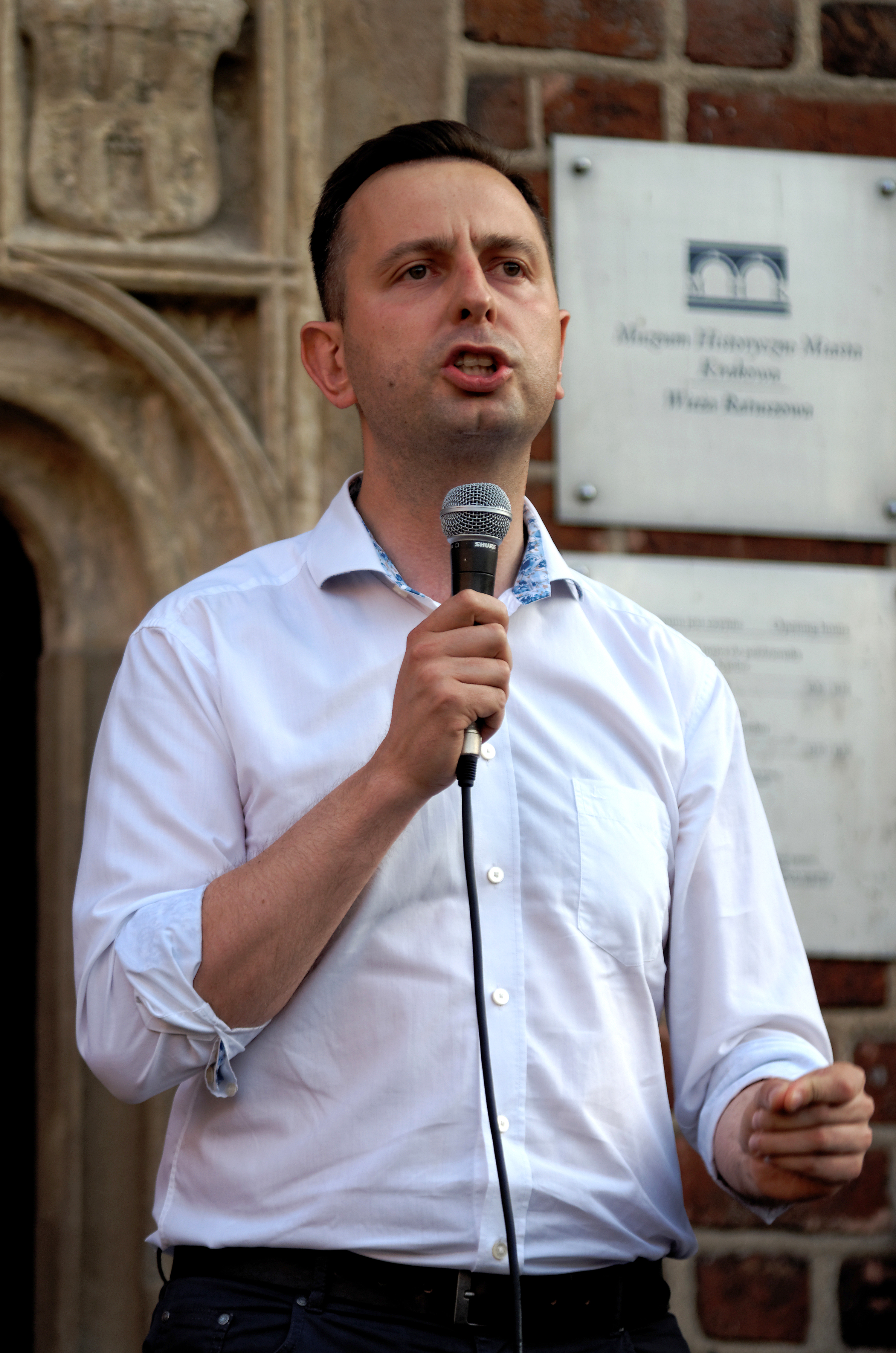 Władysław Kosiniak-Kamysz of Polish Peasants' Party speaking at the protest in defence of courts in Kraków